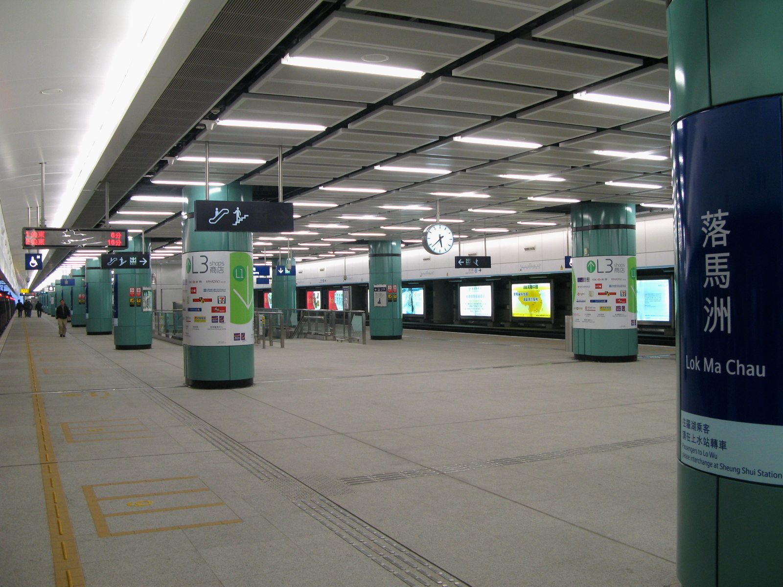 HK MTR Lok Ma Chau Station Platform